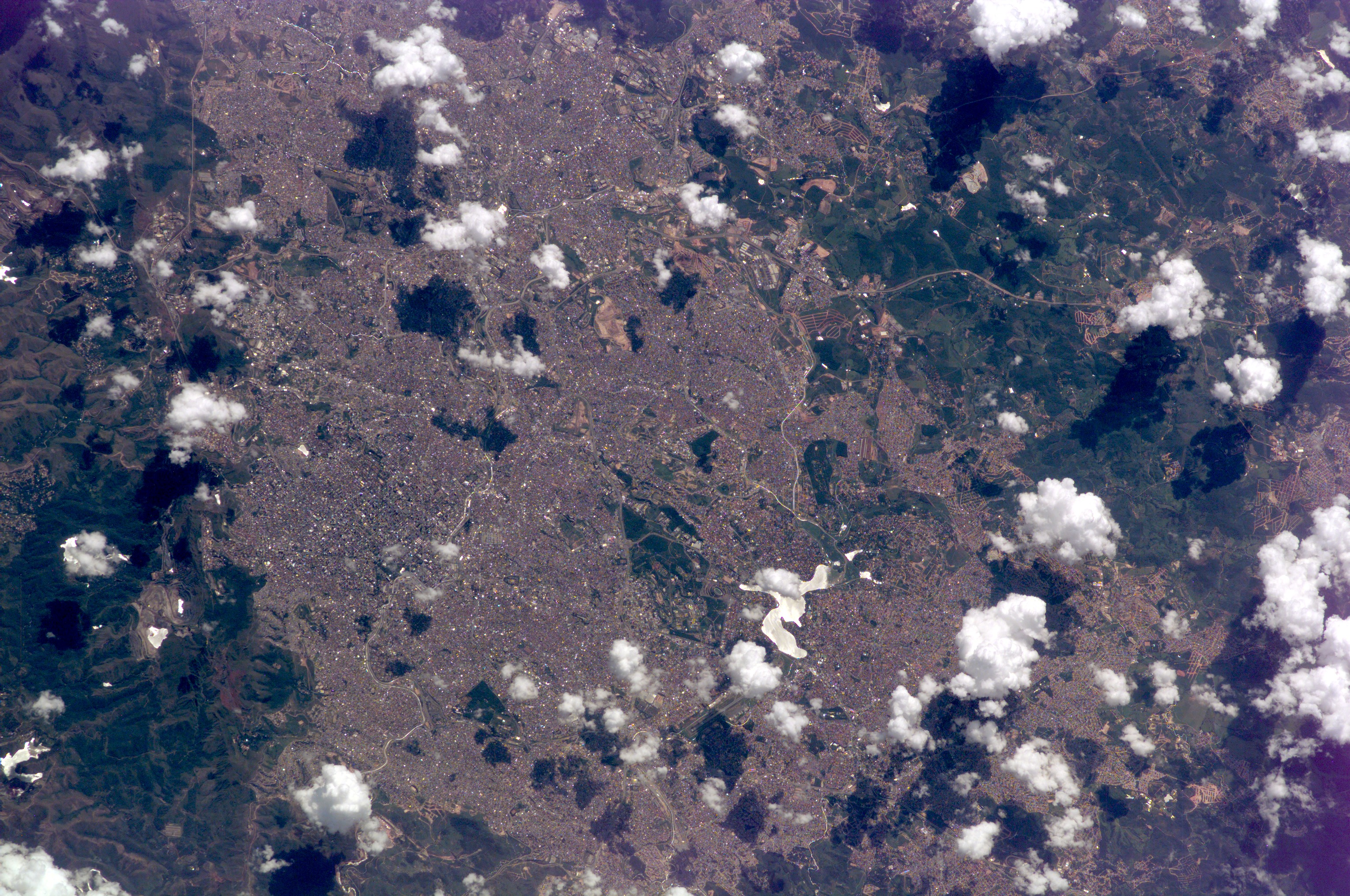 Satellite photo of Belo Horizonte, state of Minas Gerais, Brazil.